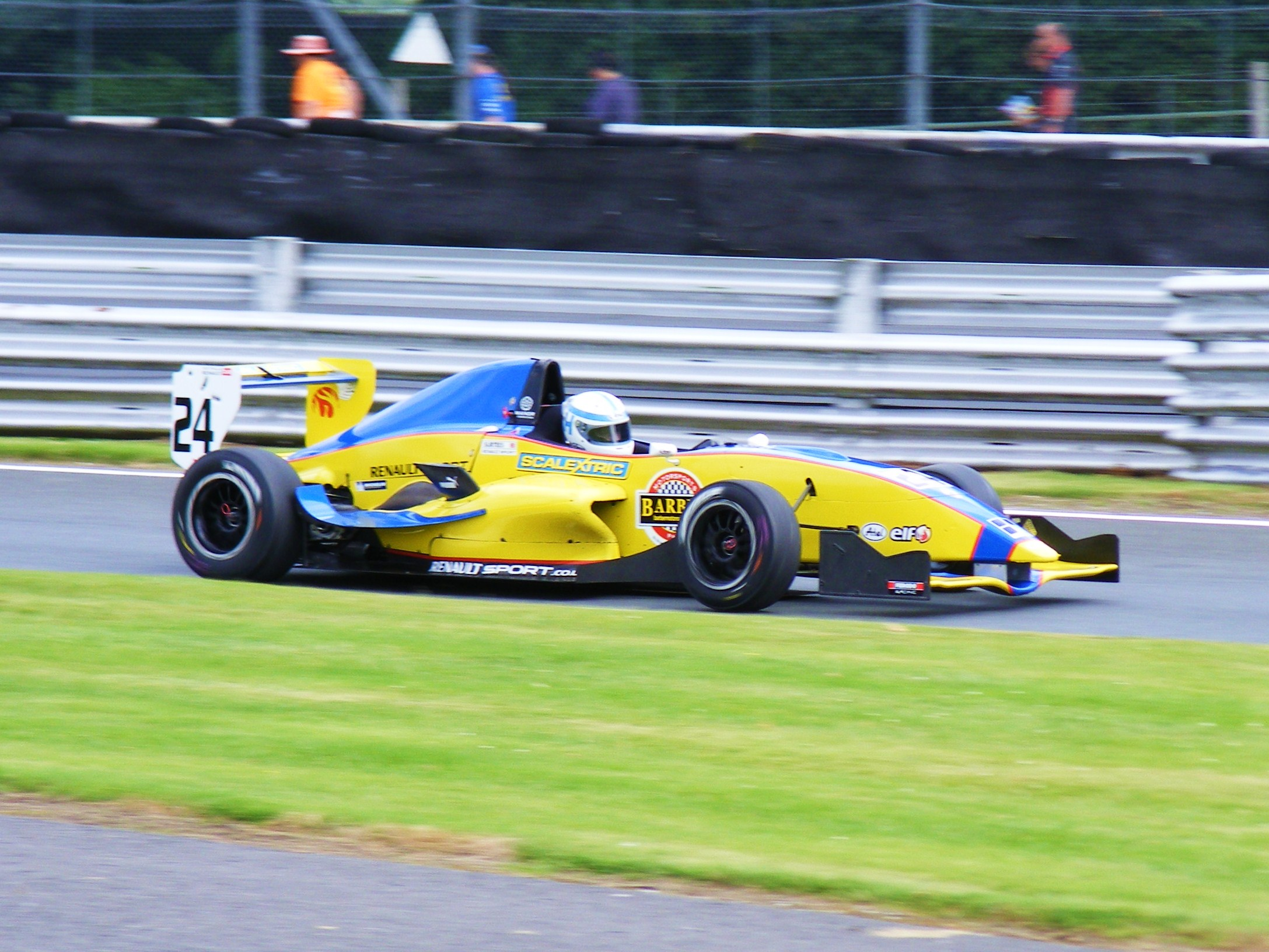 Henry Surtees exits the pit lane at Oulton Park to begin his qualifying session.